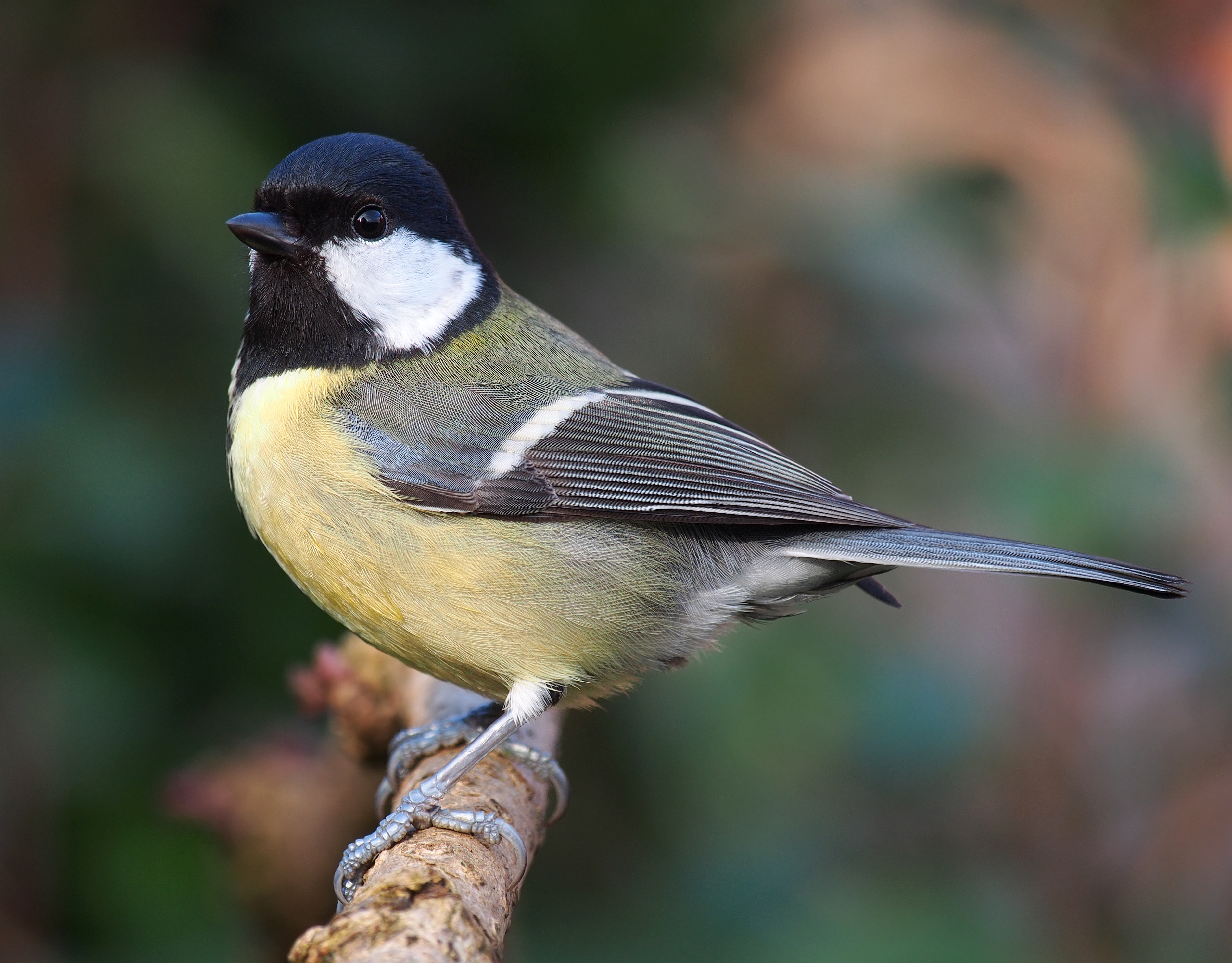 Great tit, Parus major, Lancashire, UK